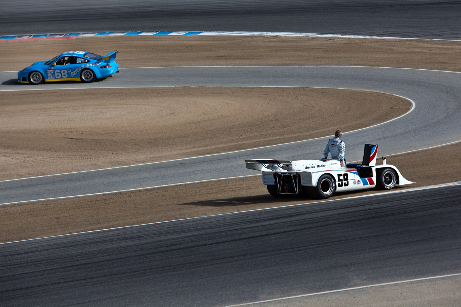 Hurley Haywood's car dropped dead during the parade lap at the end of the day.